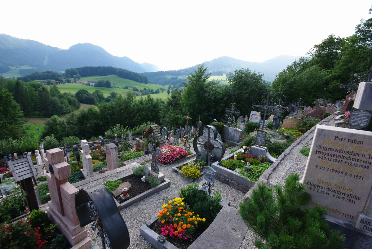 Bergfriedhof in Ruhpolding This is a photograph of an architectural monument.